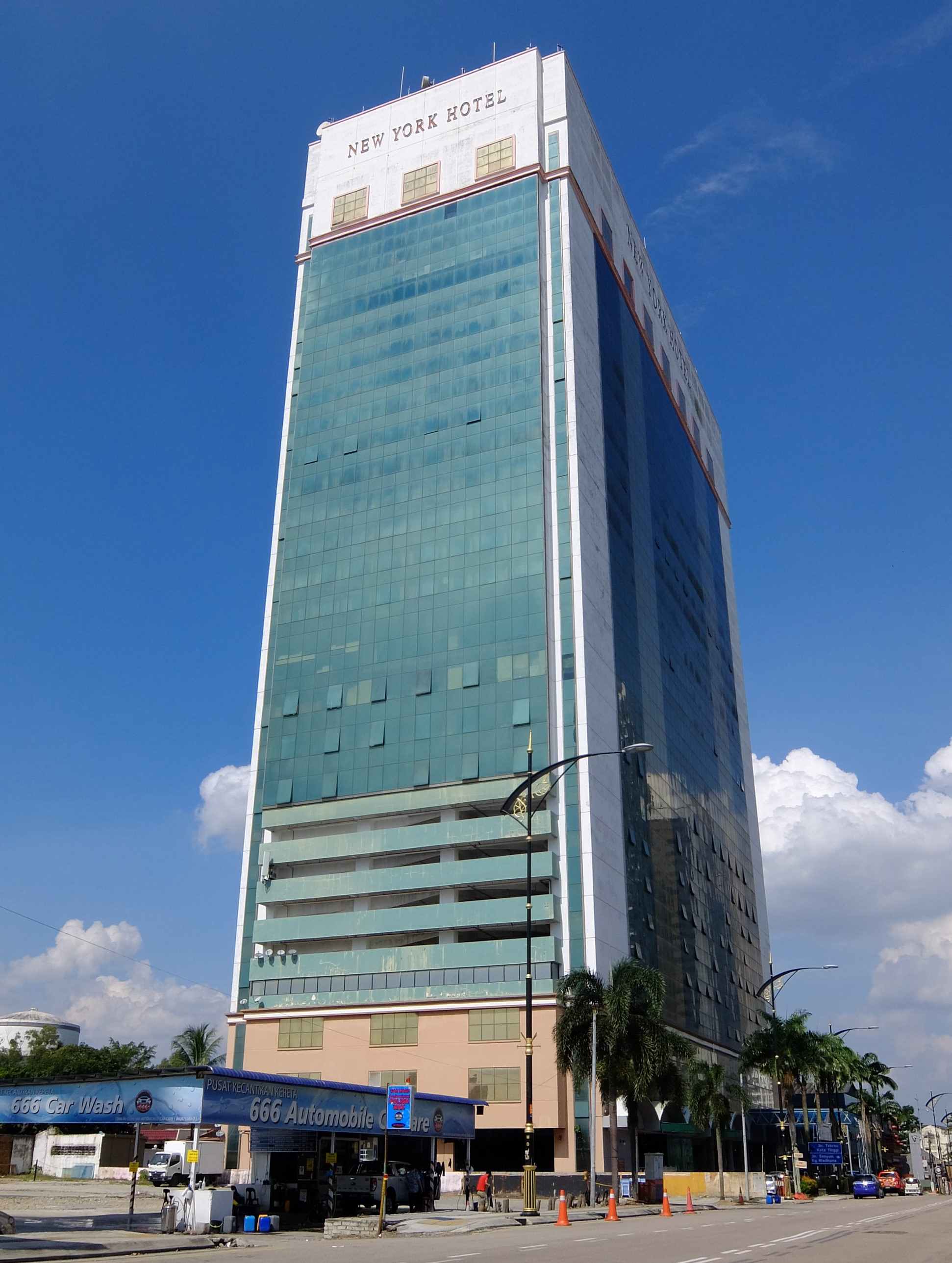 New York Hotel, Johor Bahru, Johor, Malaysia